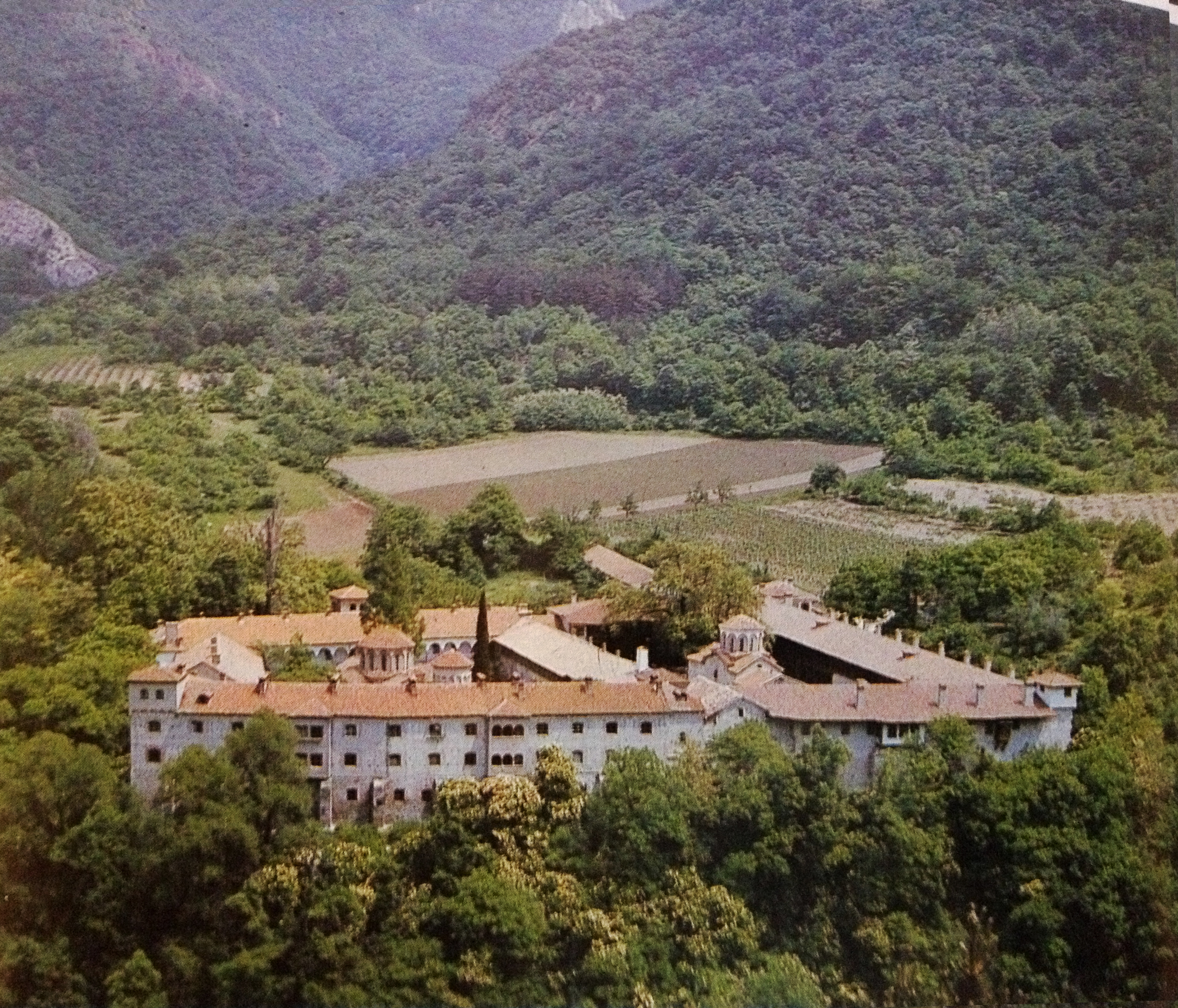 Bachkovo monastery, Bulgaria